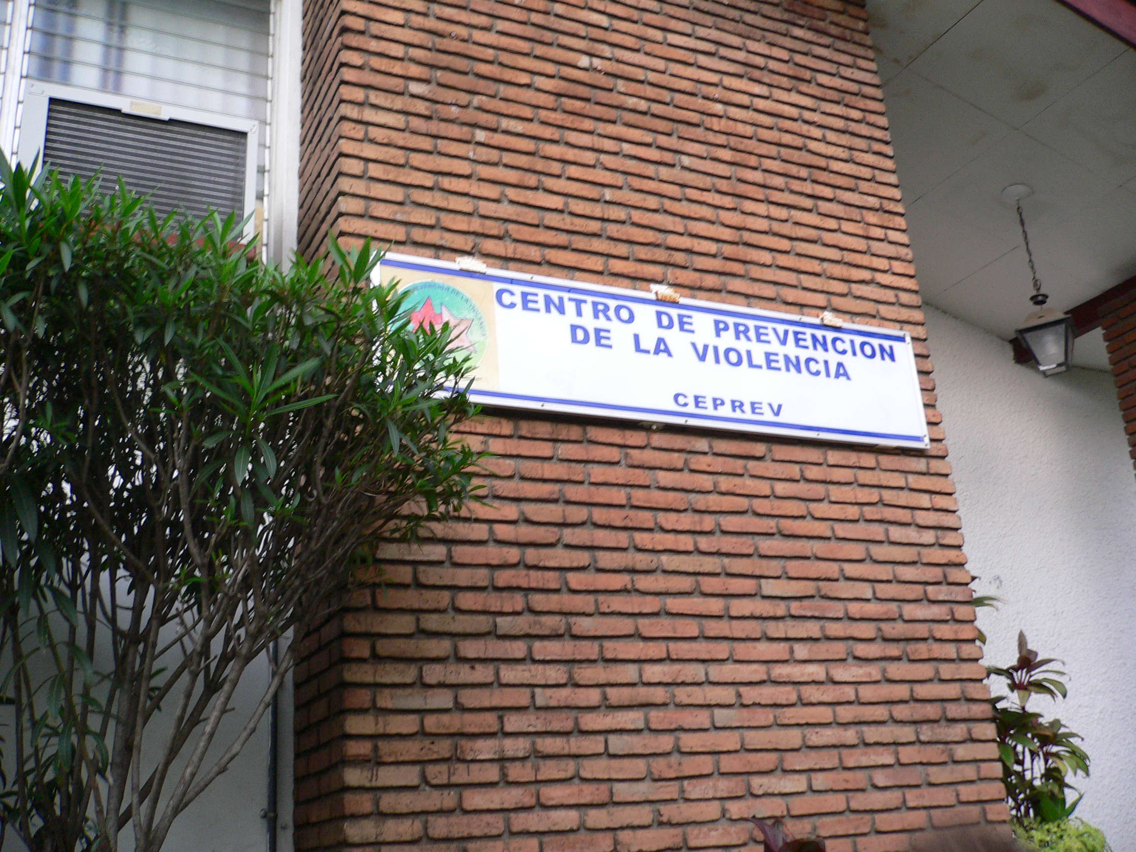 CEPREV, one of the Swedish aid organisation Diakonia's partners in Nicaragua.